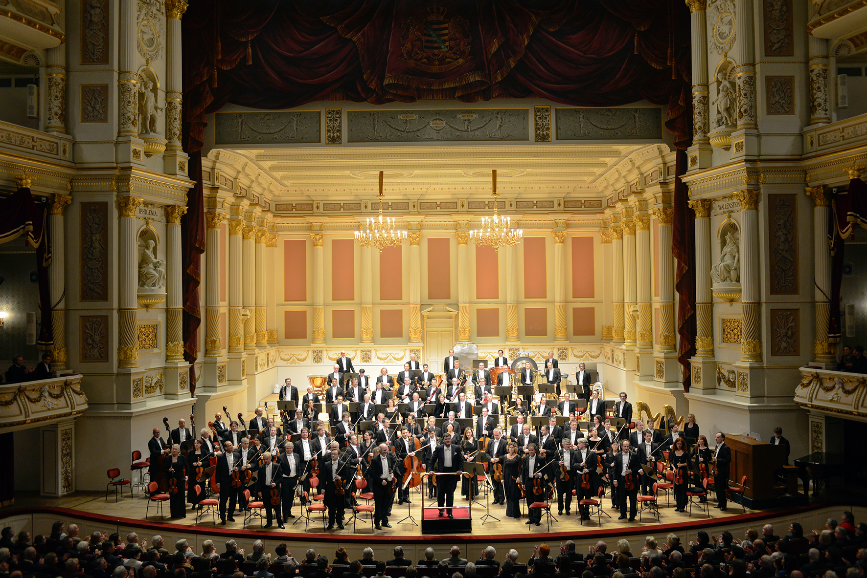 Sächsische Staatskapelle Dresden with their principal conductor Christian Thielemann, Semperoper 2018